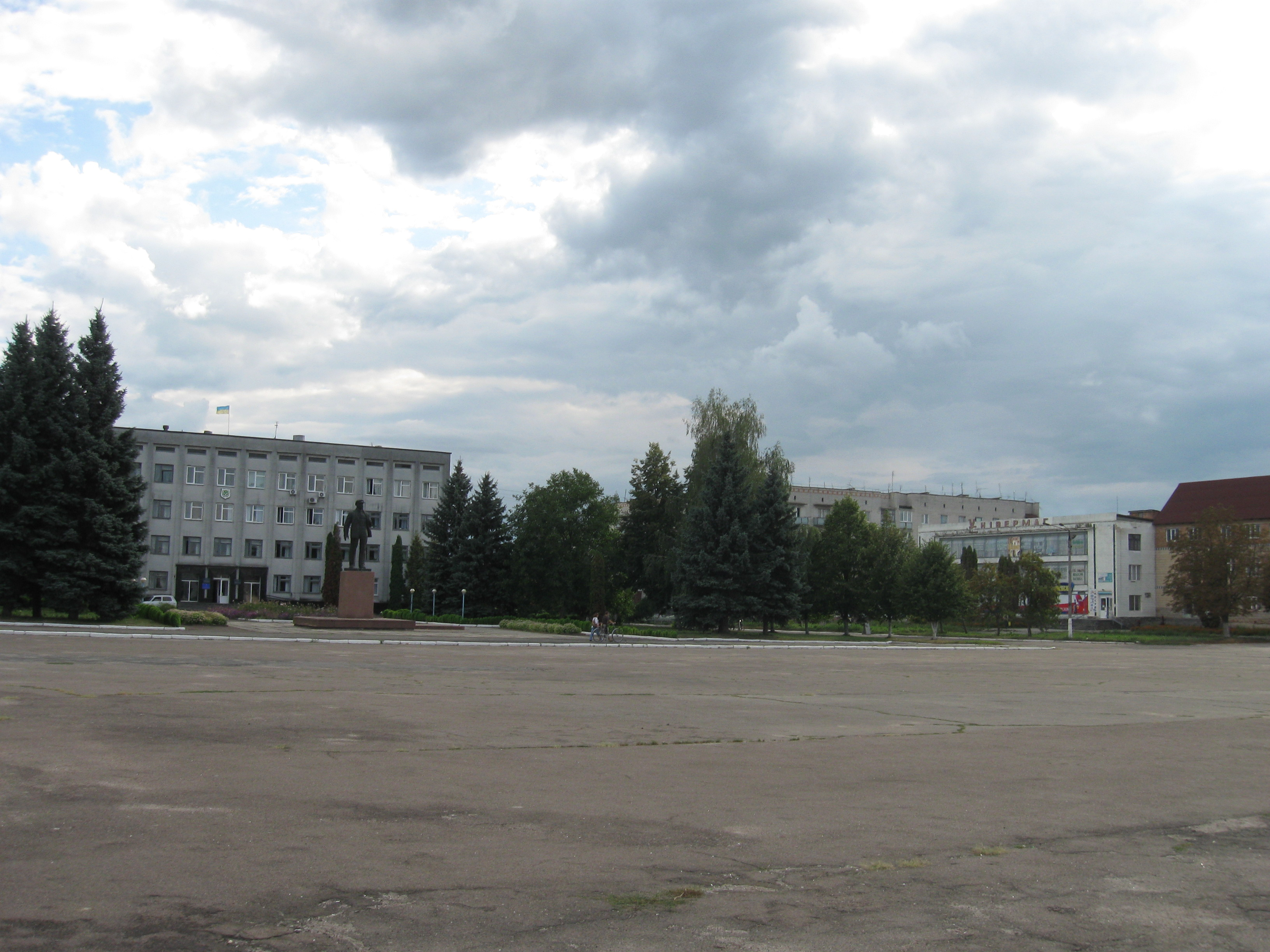 Andrushivka, Ukraine